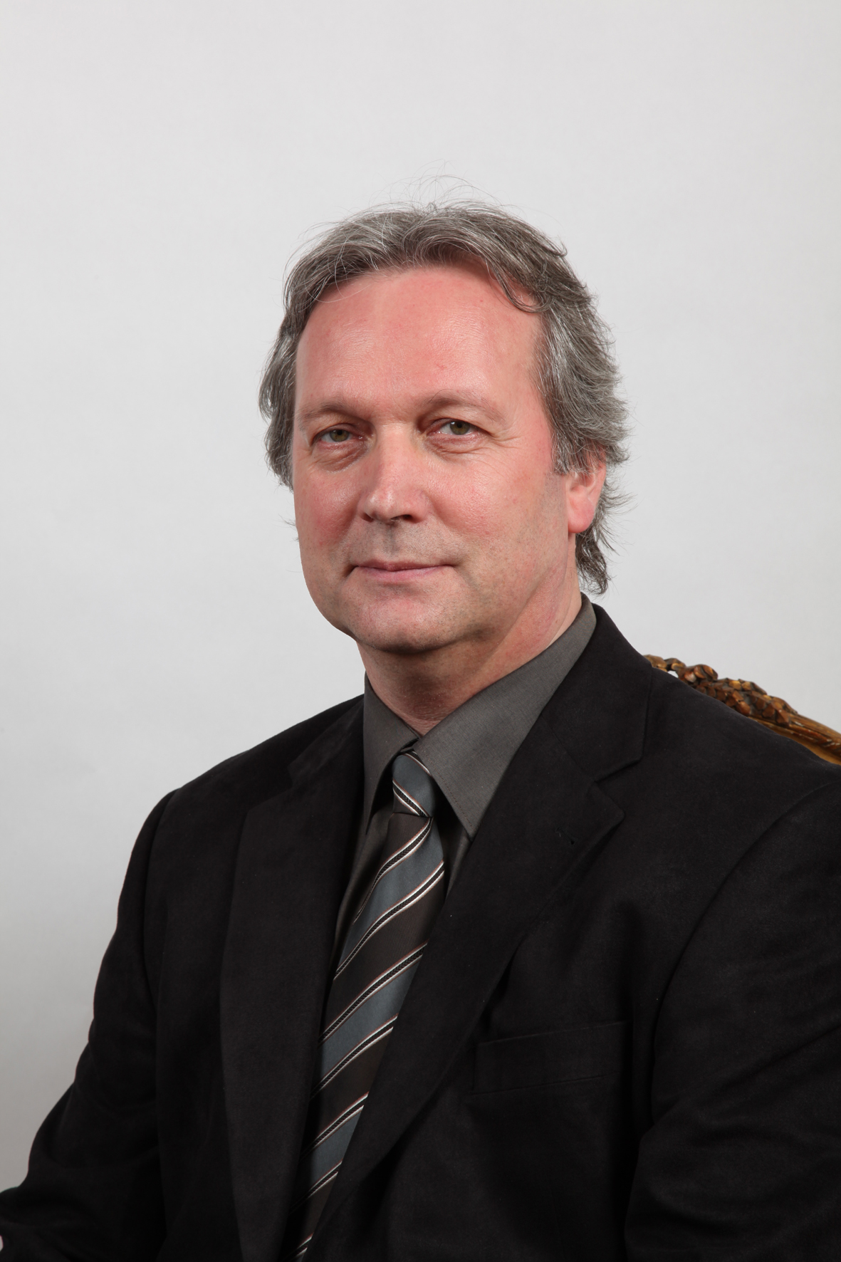 Prof. Dr. Tamás Freund (DSc) neurobiologist, member of the Hungarian Academy of Sciences